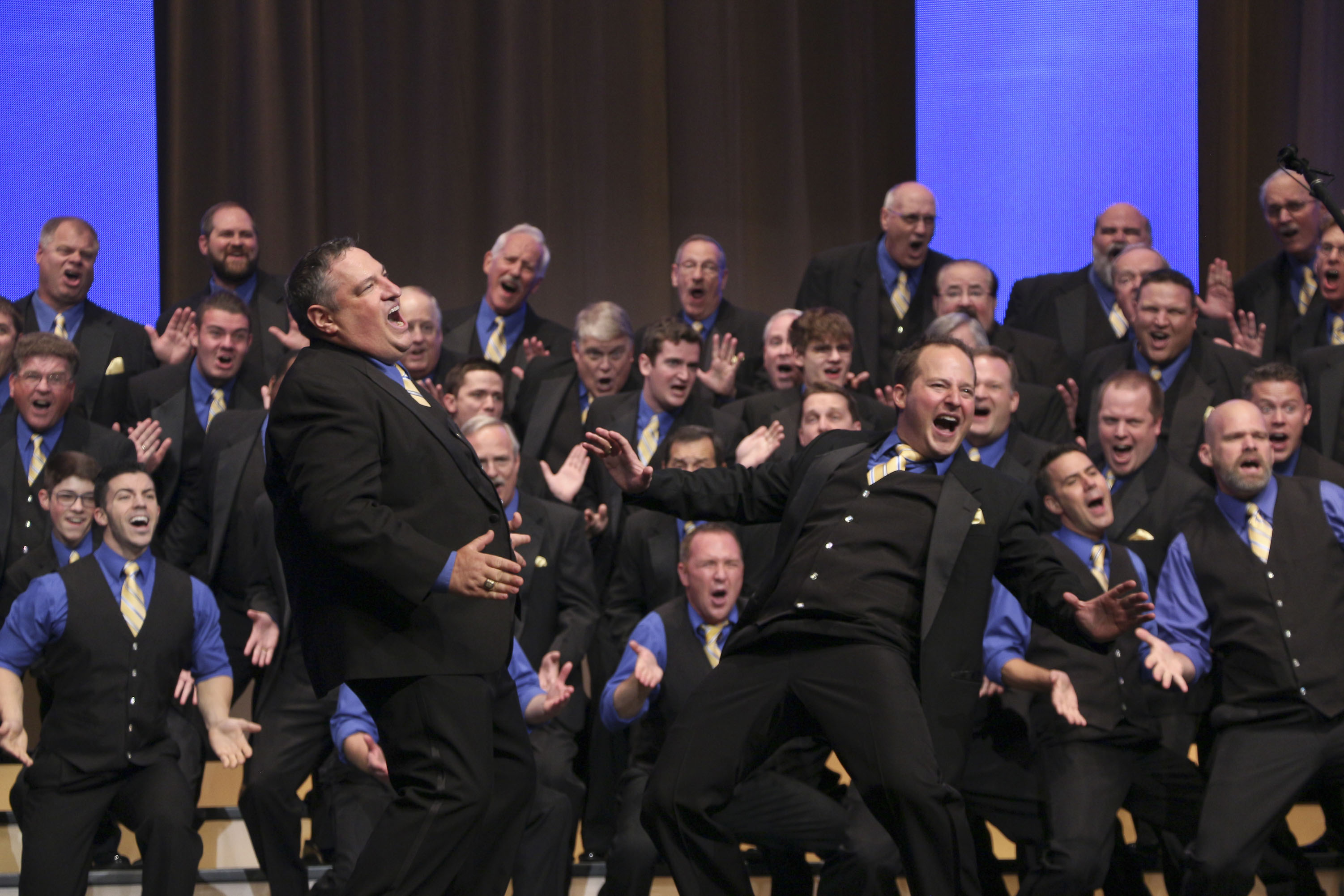 The Ambassadors of Harmony in Nashville, July 2016